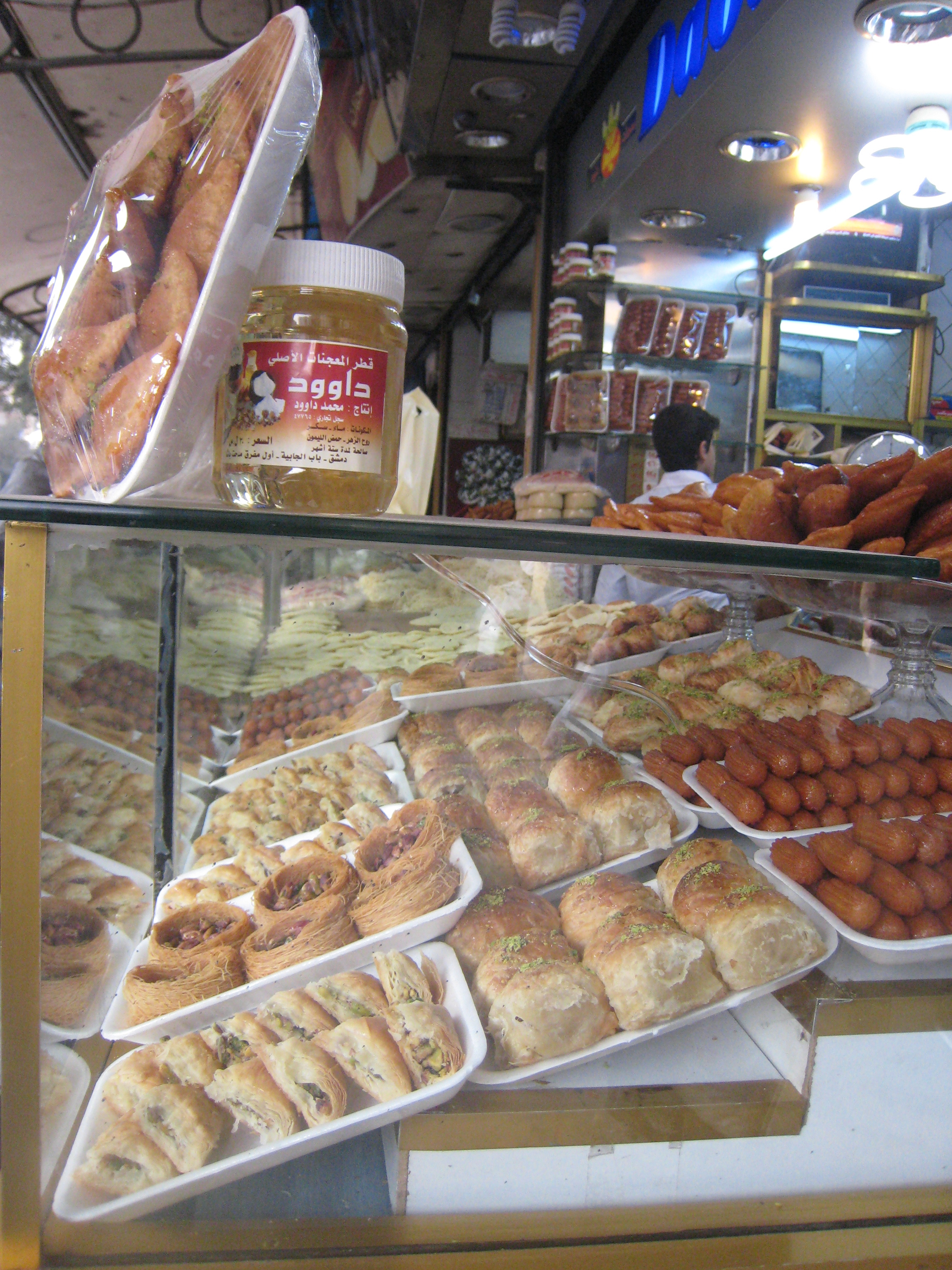 Syrian pastries (photo from Damascus)